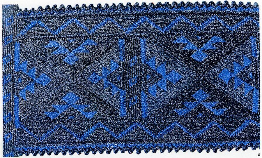 Sleeve from a woman's shift, embroidered with black and blue wool. Skopska Crna Gora, Skopje district, beginning of the twentieth century. Measurements 17 x 45cm.